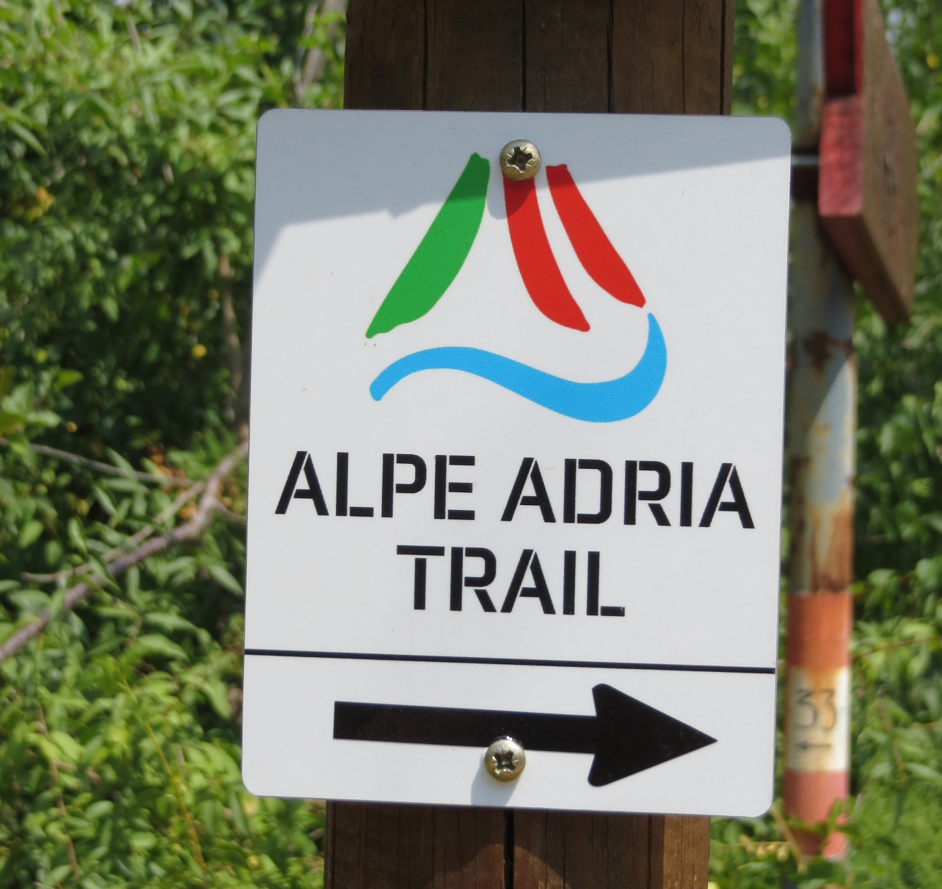 Marker of the Alpe Adria Trail